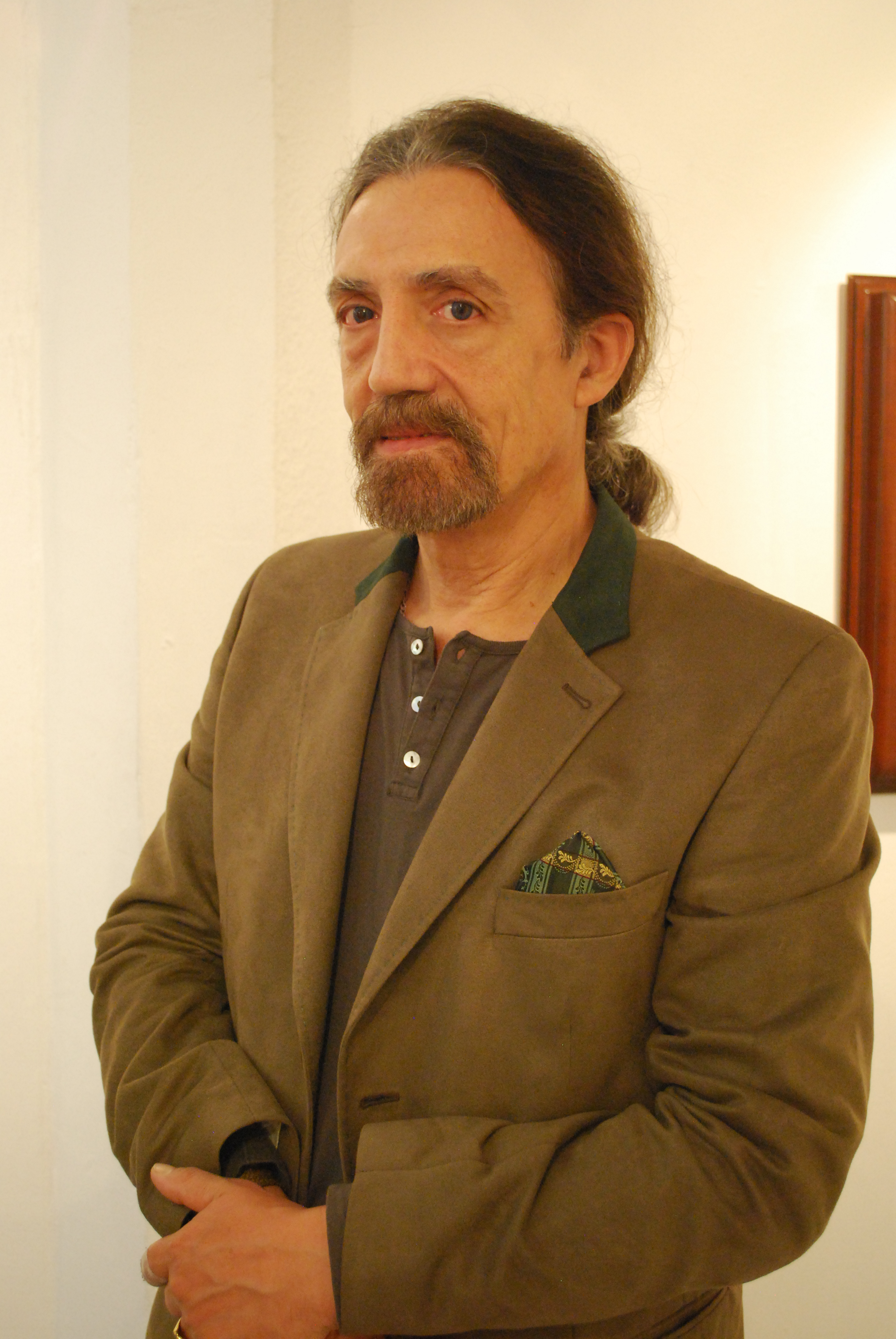 Julio Carrasco Breton at the Musica y Tradiciones event at the Salon de la Plastica Mexicana